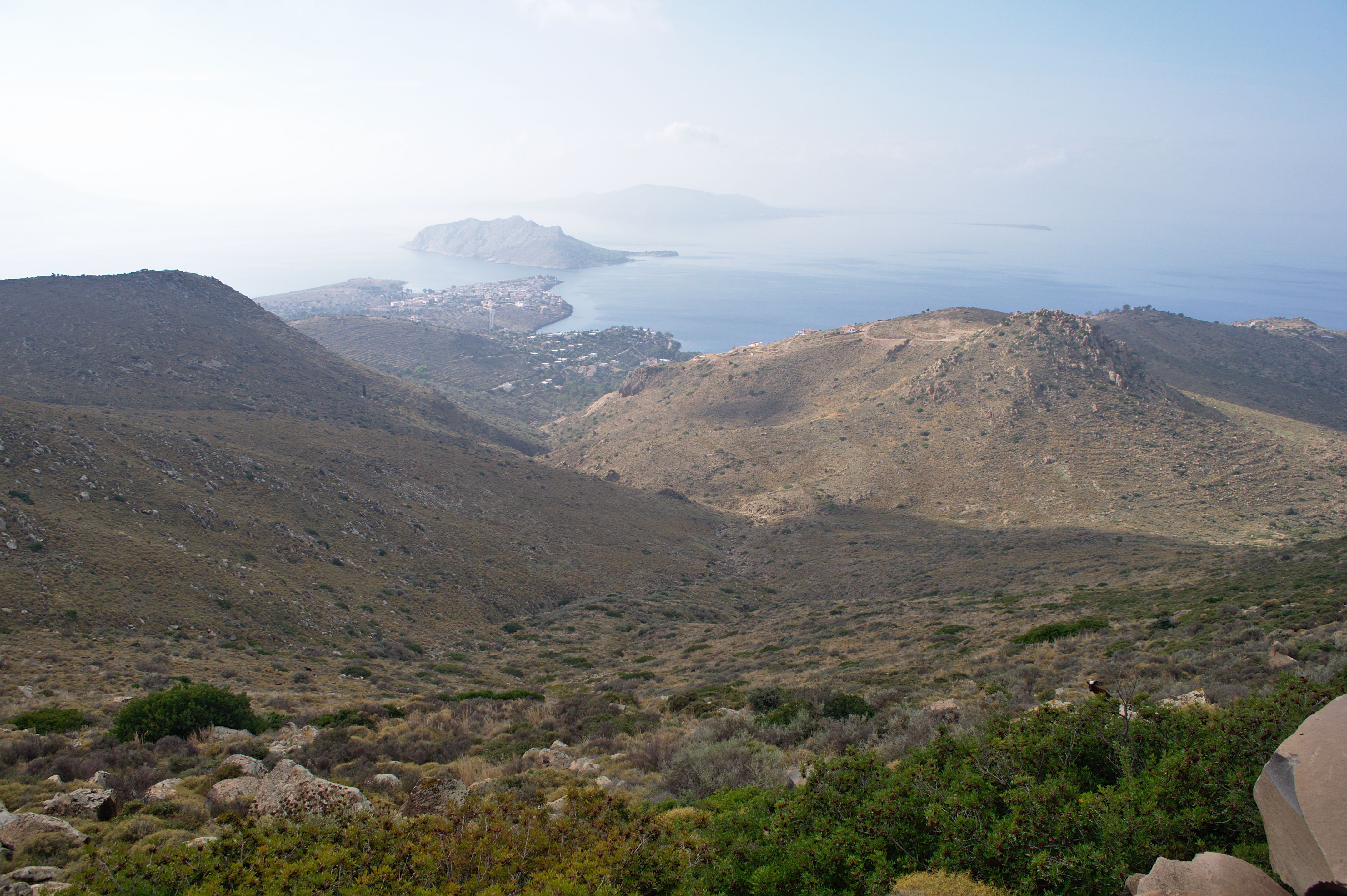 View of Aegina